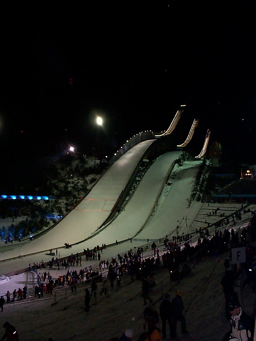 Salpausselkä ski jumping hills at FIS Nordic World Ski Championships 2001 in Lahti, Finland